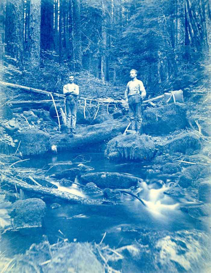 Exploration of the Bull Run River in Oregon, United States, in 1891.